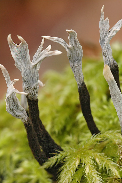 The candlestick fungus, species Xylaria hypoxylon (L.) Grev. Specimen located in East side of Bovec basin near the trail to Planina Golobar, East Julian Alps, Posocje, Slovenia. See Mushroom Observer site for more details about habitat.